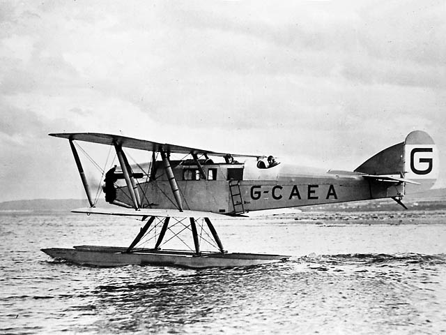 Martinsyde F6